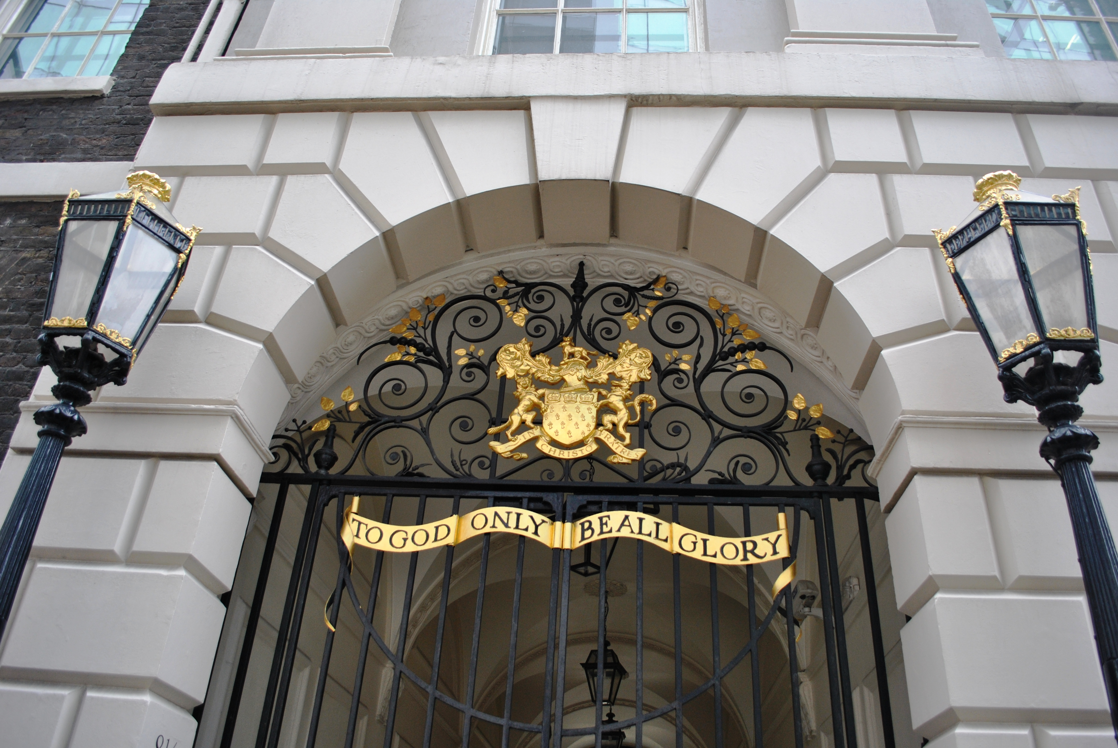 Worshipful Company of Skinners